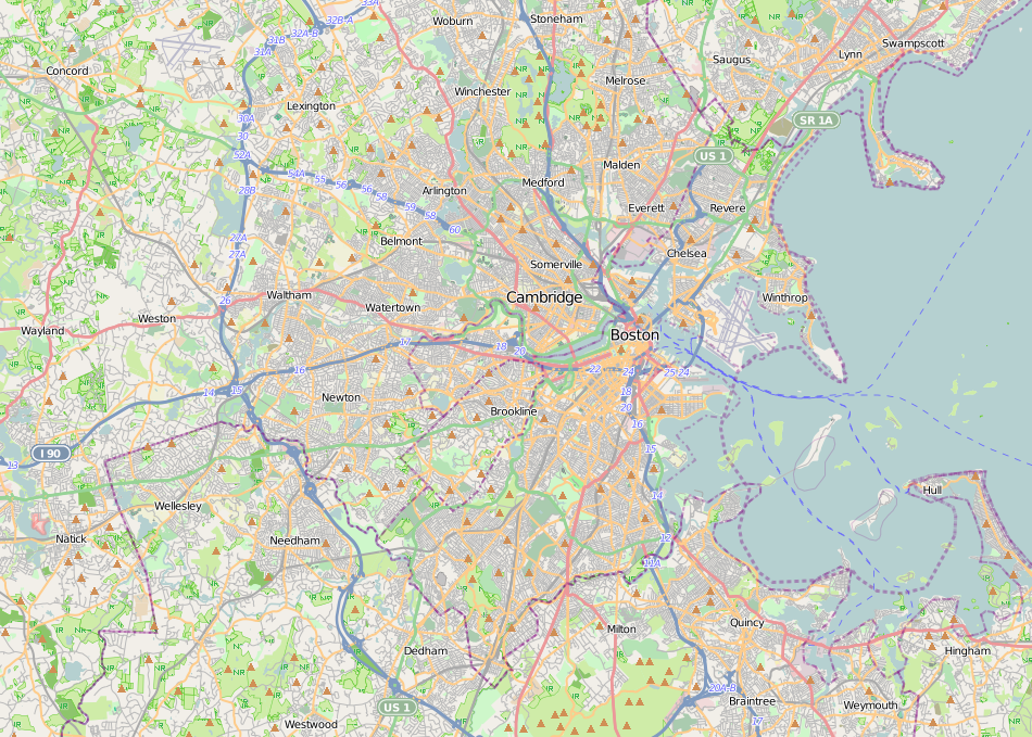 This map of Area metropolitana de Boston was created from OpenStreetMap project data, collected by the community. This map may be incomplete, and may contain errors. Don't rely solely on it for navigation.